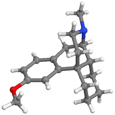 Chemical structure of Levomethorphan Color .PNG exported from Jmol, structure created using is6088I.cif (Detromethorphan) from Flipped (graphically) in Gimp to get enantiomer.